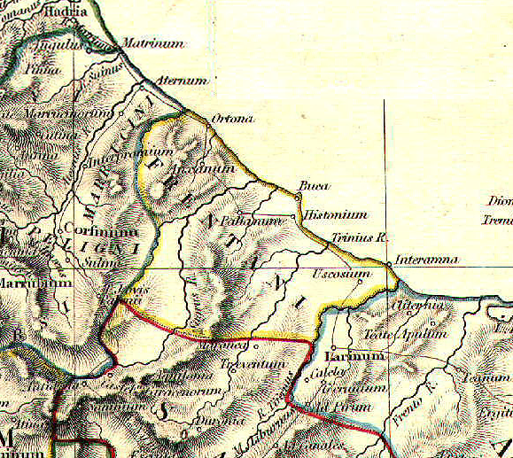 Reference map for Roman Frentani